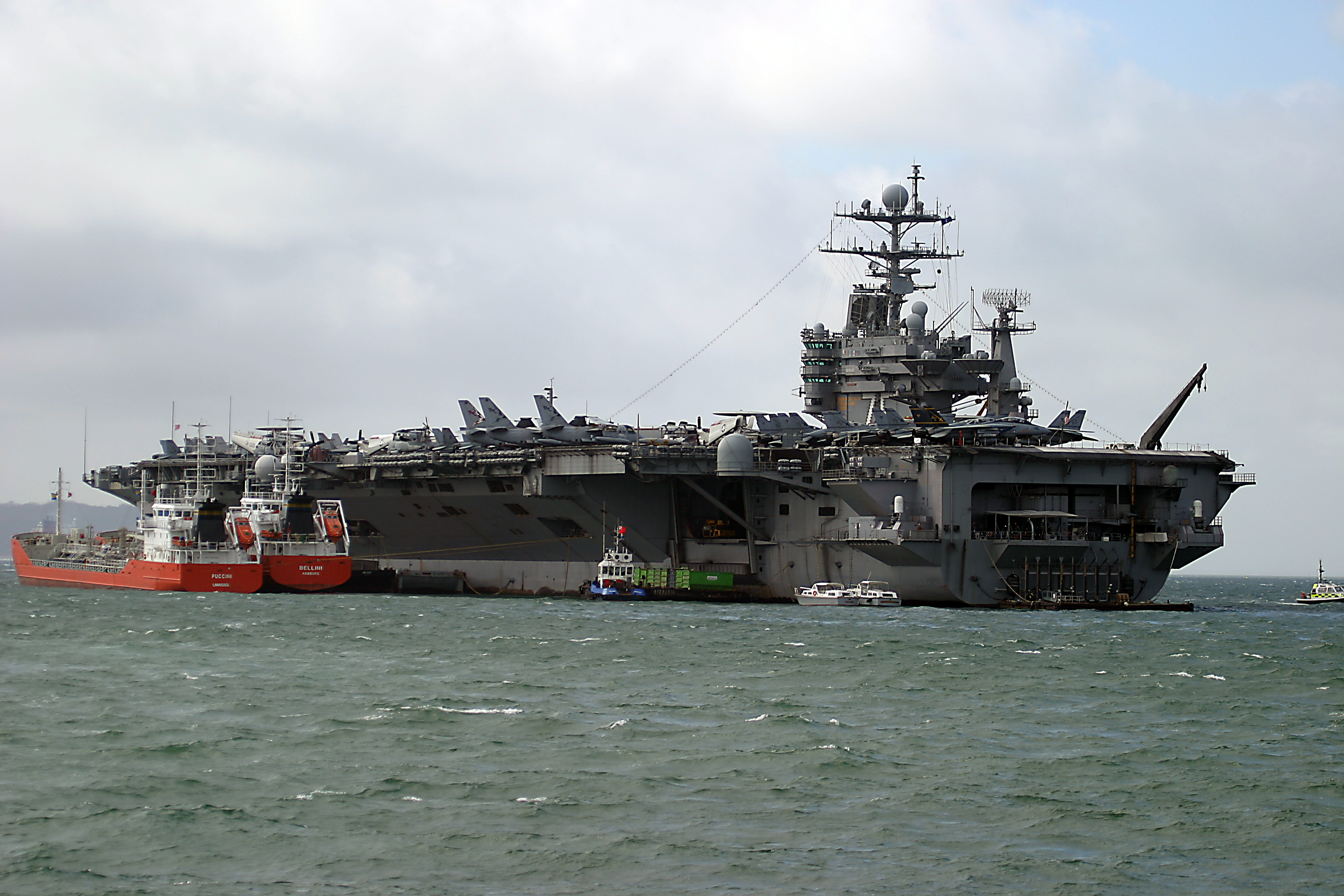 Stokes Bay, England (Apr. 6, 2005) - The Nimitz-class aircraft carrier USS Harry S. Truman (CVN 75) sits at anchor in Stokes Bay on the south coast of England during a scheduled port visit. The Harry S. Truman Carrier Strike Group was recently relieved after completing nearly four months in the Persian Gulf in support of the Global War on Terrorism. Photo courtesy of Neil Jones (RELEASED)